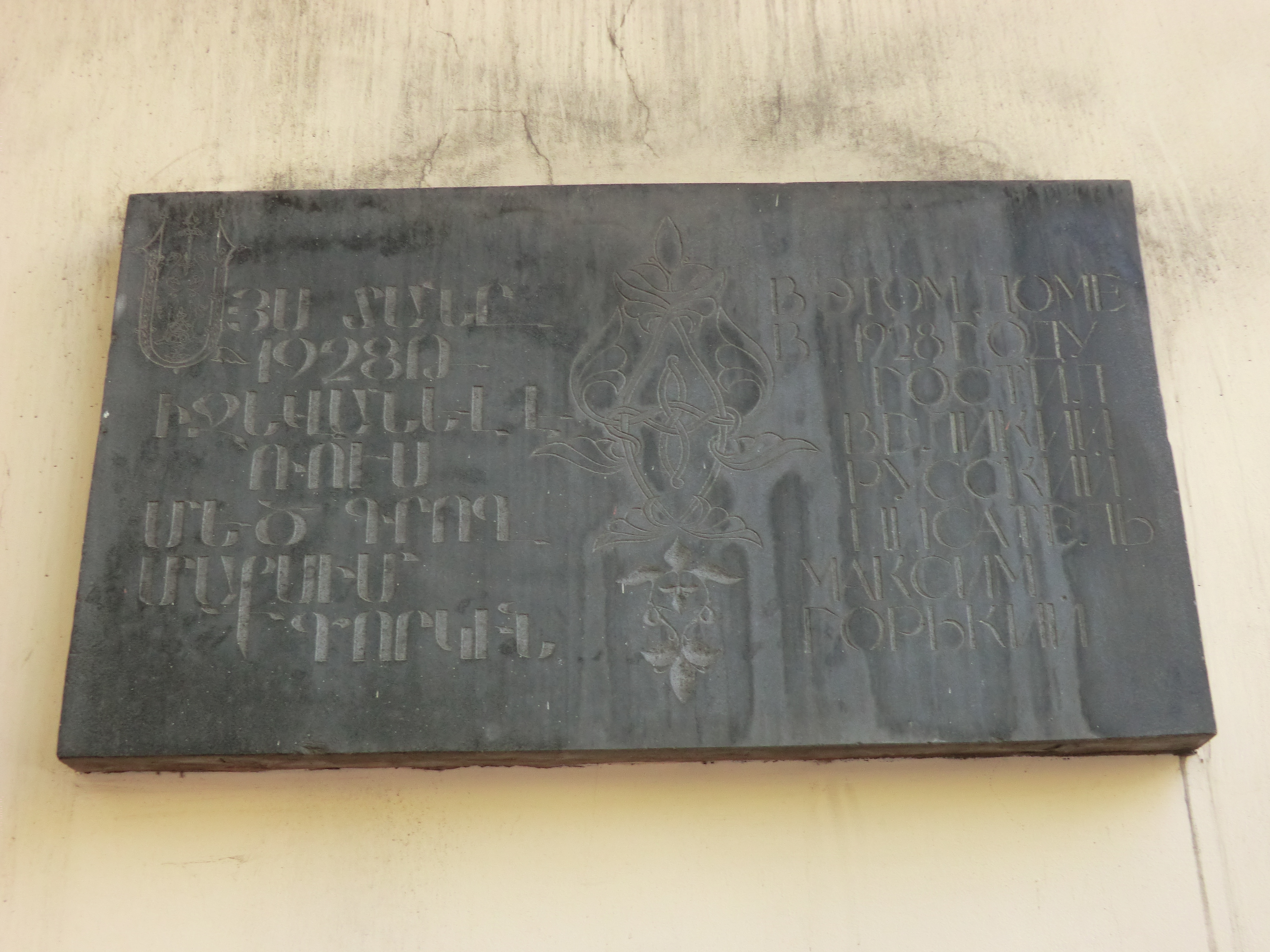 Plaque in Yerevan - Maxim Gorky has stayed in this home in 1928.